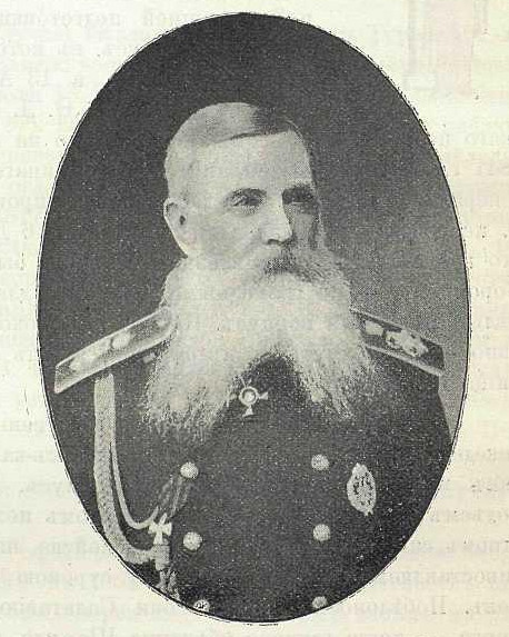 General of Infantry of the Russian Empire Fedor Heiden.